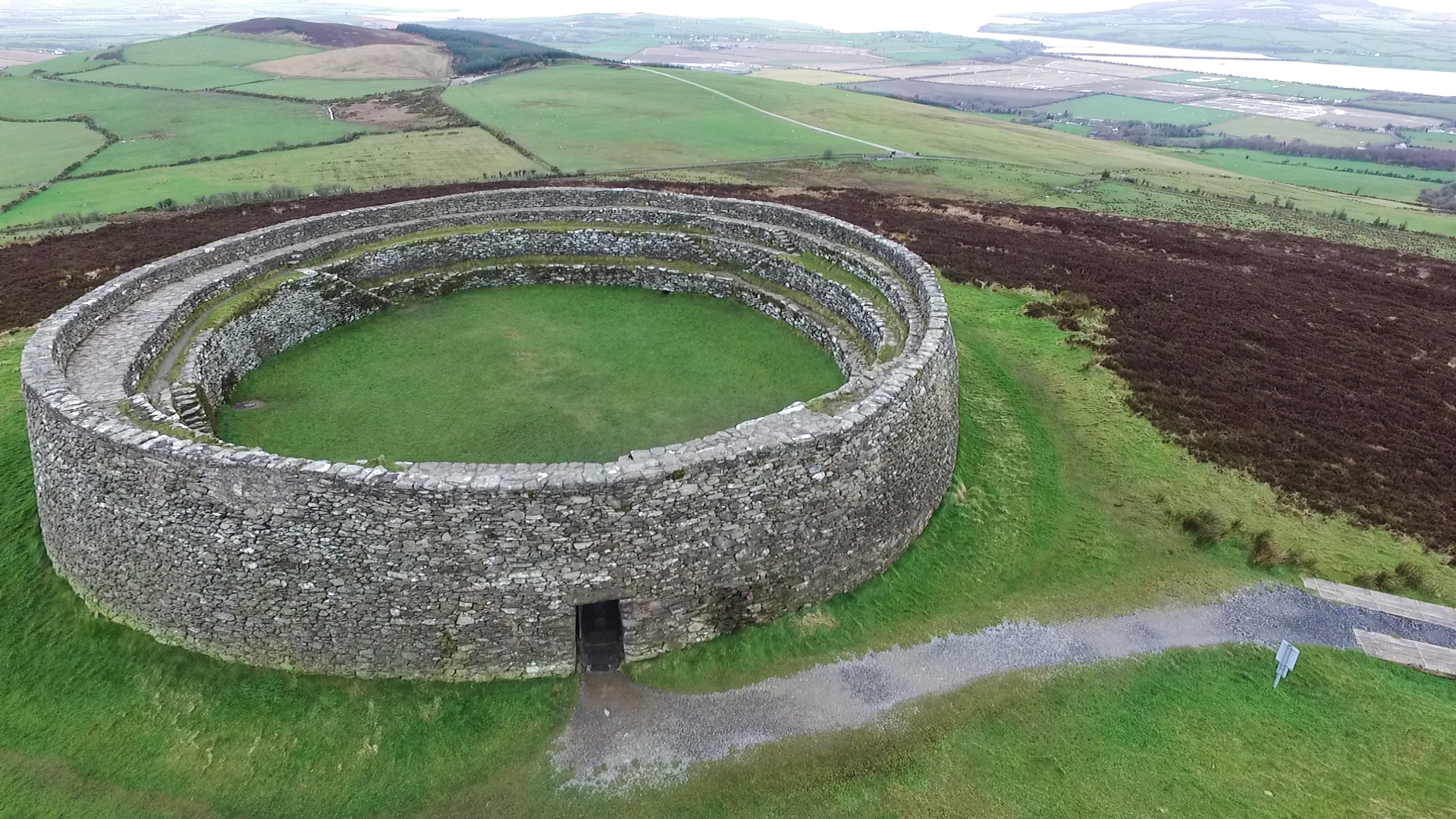 Grianan of Aileach fort sits atop a beautiful scenic view and is a must see to visitors